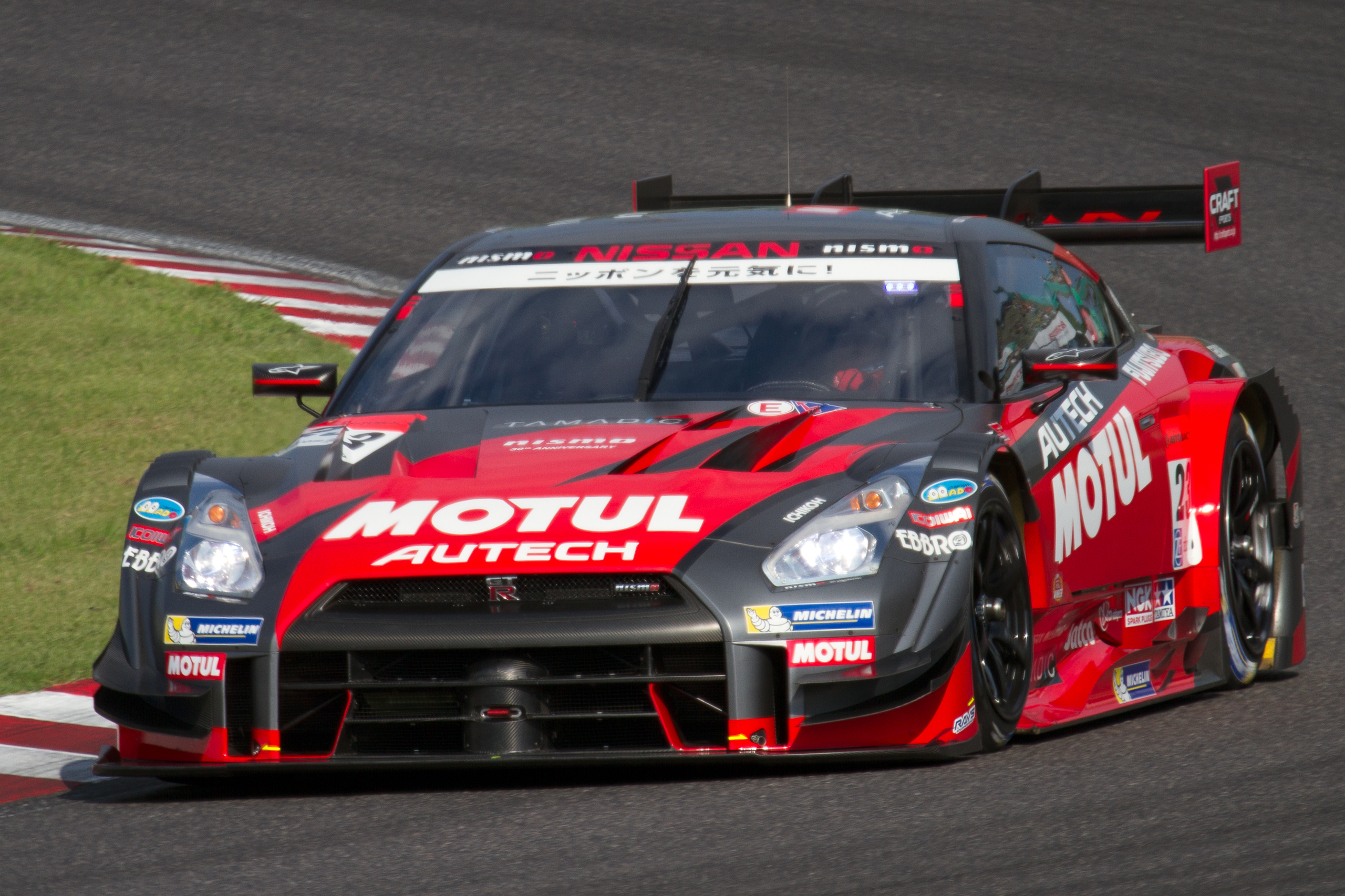 Super GT 2014 Rd.6 Suzuka 1000km: Ronnie Quintarelli (Nismo)